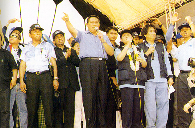 Susilo Bambang Yudhoyono's Democratic Party received 7.45 percent of votes in the legislative election. The Democratic Party, the Indonesian Justice and Unity Party, and the Crescent Star Party officially nominated Yudhoyono and Jusuf Kalla as candidates for president and vice president.